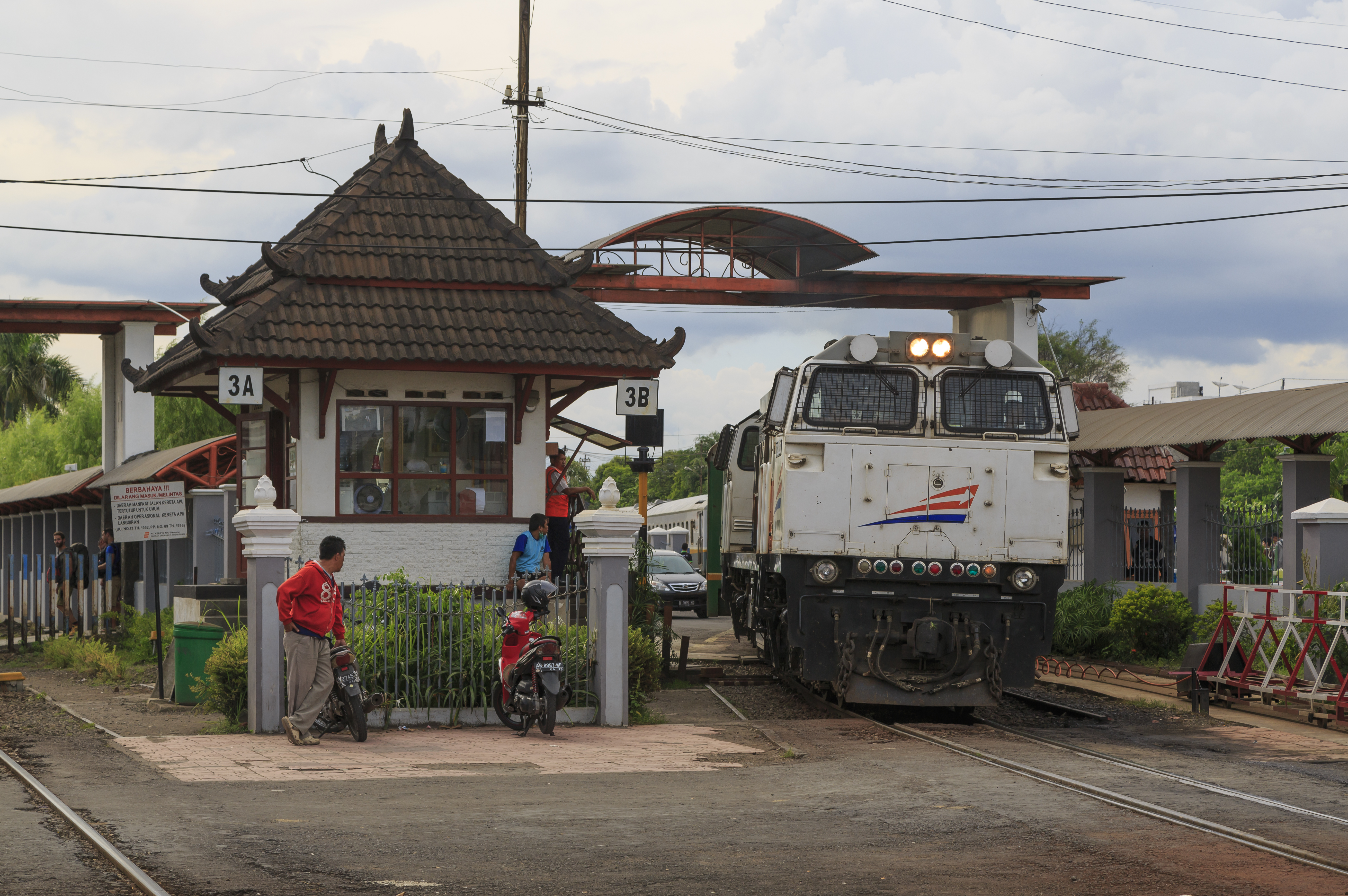 Yogyakarta, Indonesia: Train number CC 2061326 "DIPO INDUK YK" is leaving Tugu Train Station and passing the level crossing with the gatekeeper station..